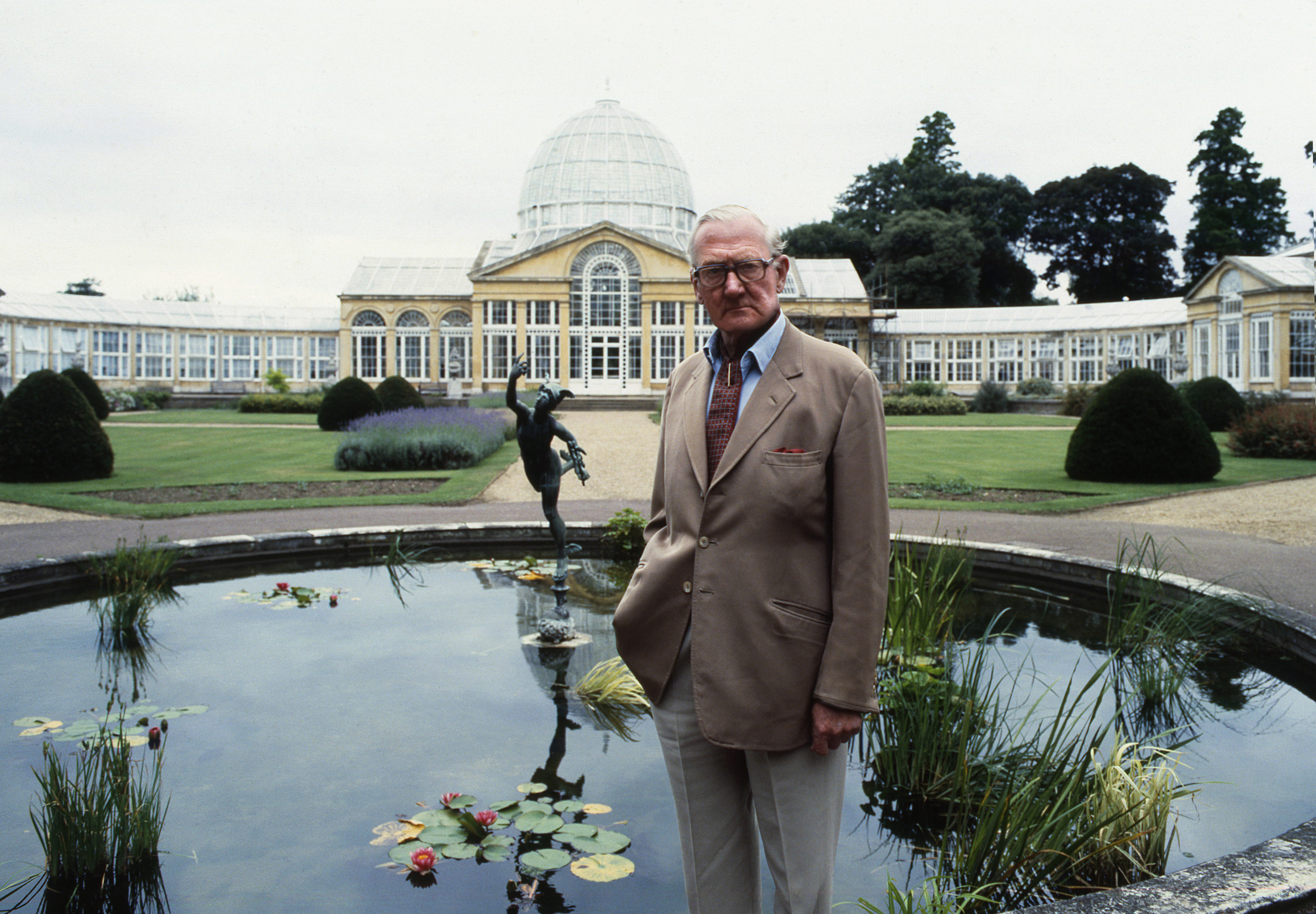 Hugh Percy the 10th Duke of Northumberland taken outside the Butterfly House at Syon House